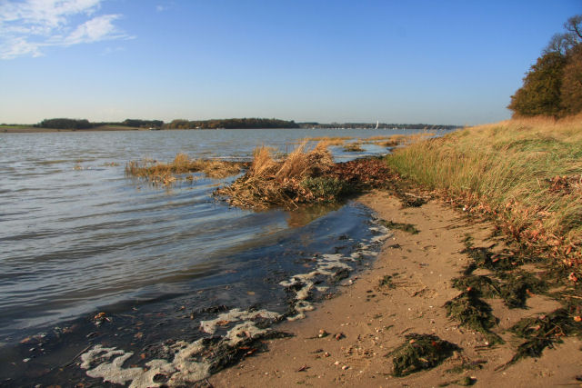 High water on the River Orwell Although the wind is gentle, the waves lapping on the shoreline have caused some scum to be formed.